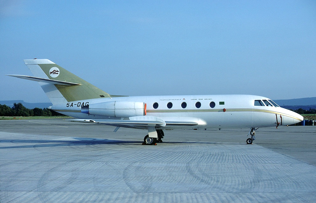 A Libyan Arab Airlines Dassault Falcon (Mystere) 20C at Euroairport (LFSB)